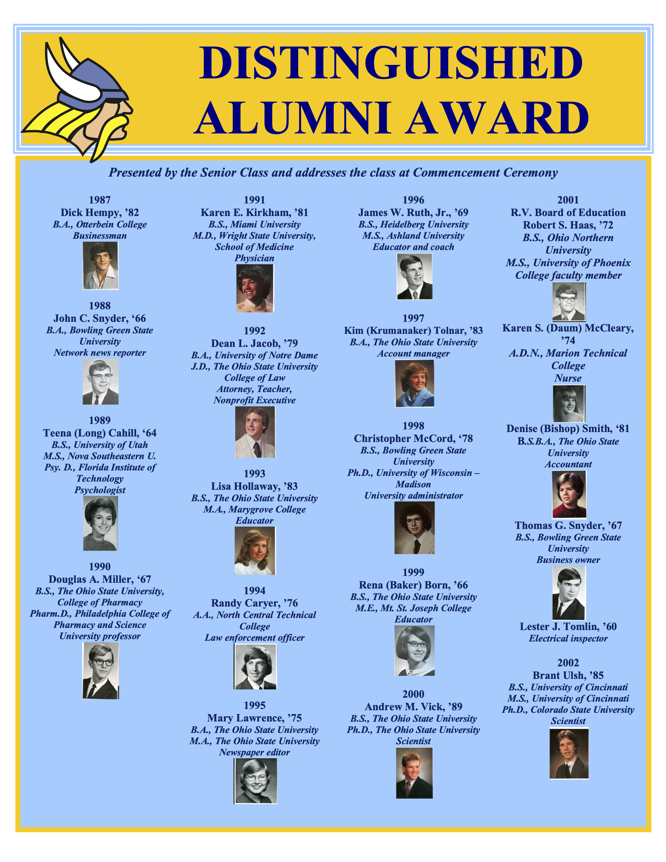 Distinguished Alumni of River Valley Local Schools